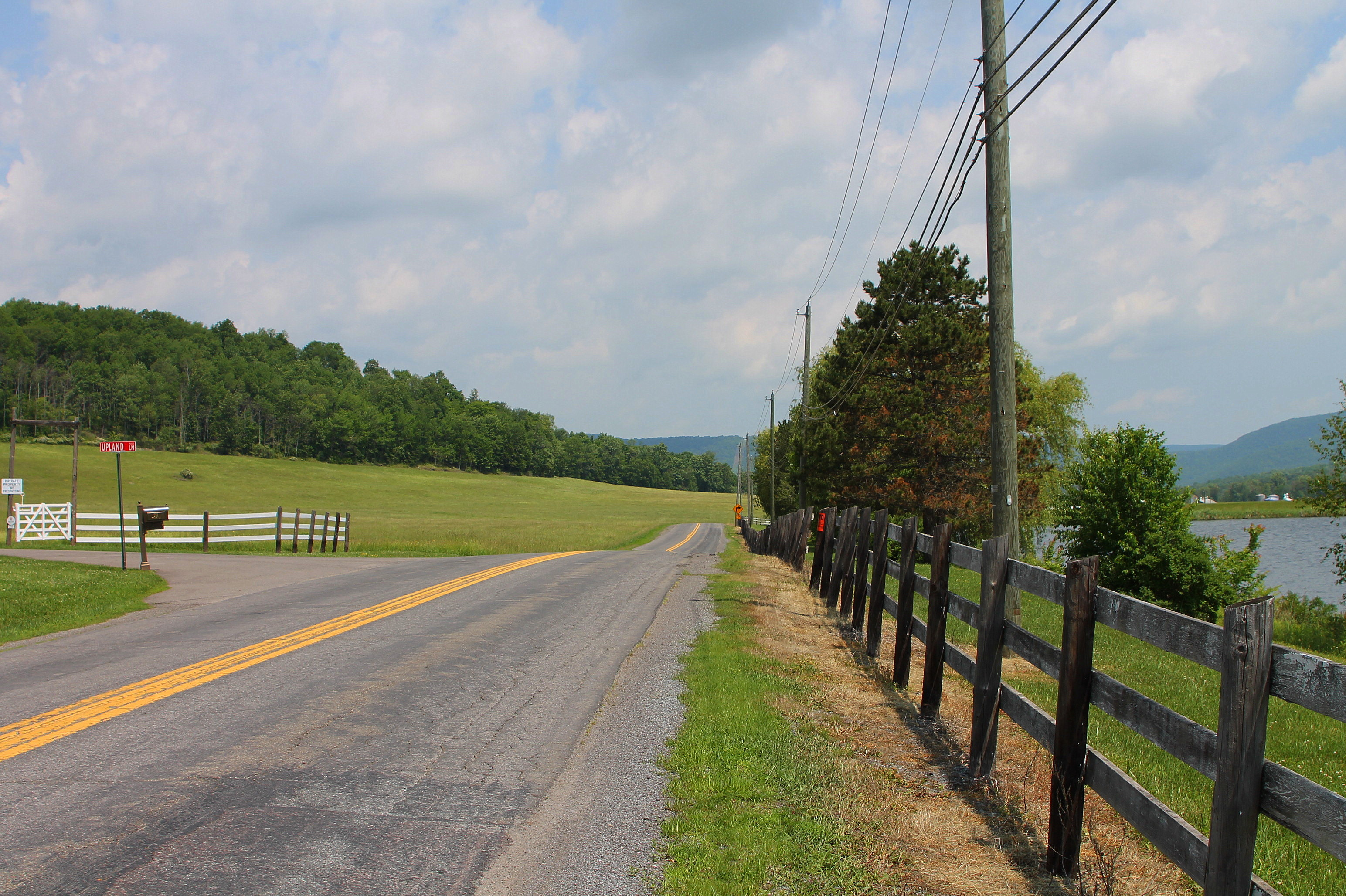 Buckwheat Hollow Road looking north in Monroe Township, Wyoming County, Pennsylvania